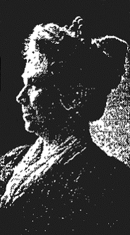 Rebecca Elizabeth Russell Burnham Clapp (1843-1905). Mother of Frederick Russell Burnham. Headline Reads: MRS. BURNHAM-CLAPP IS DEAD IN PASADENA; Pioneer of that City and Los Angeles, Descendent of Rugged Frontier Stock, and Mother of Distinguished South African War Scout